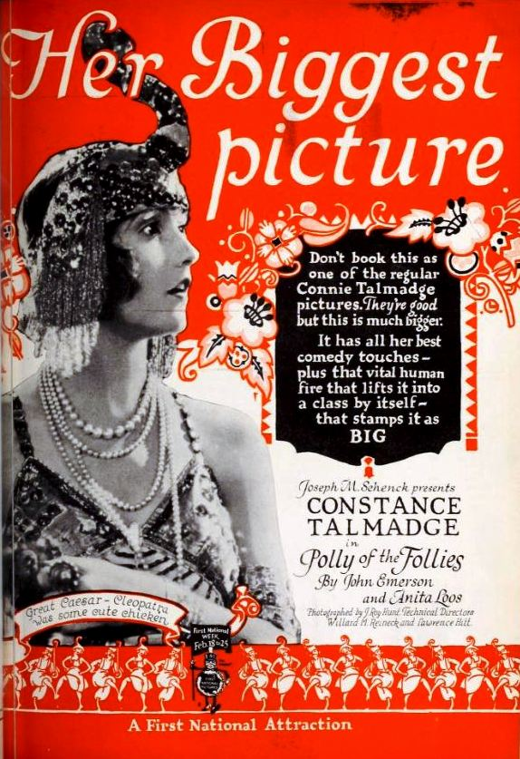 Advertisement for the American romantic comedy film Polly of the Follies (1922) with Constance Talmadge, from the insert at page 26 of the February 25, 1922 Exhibitors Herald.